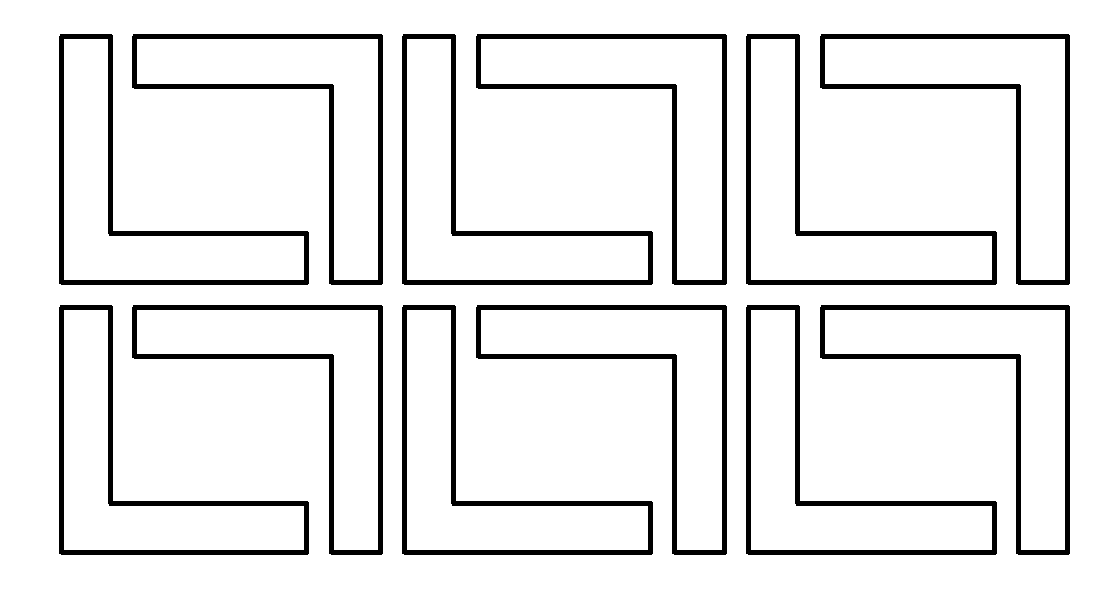 Nesting with copied and revolved parts